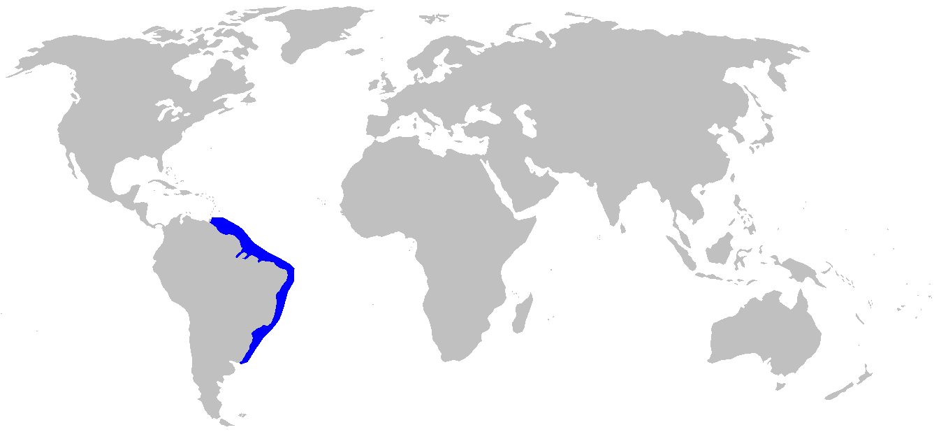 Distribution map for Scyliorhinus haeckelii